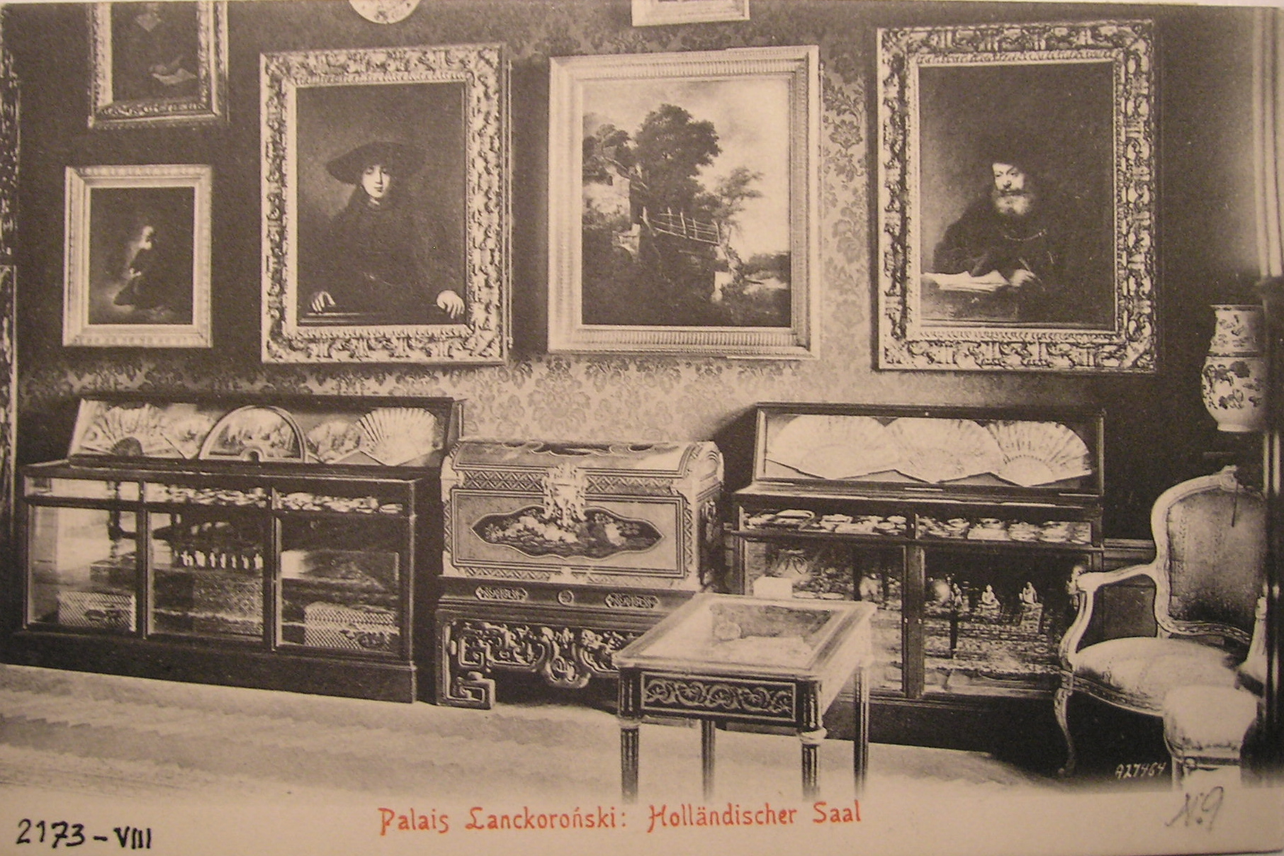 Image of the Palais Lanckoroński in Vienna, which was the private residence of Count Lanckoroński and his vast art collection, which was open to the public. The image is part of a post-card series that were made specifically for the building and its collection.